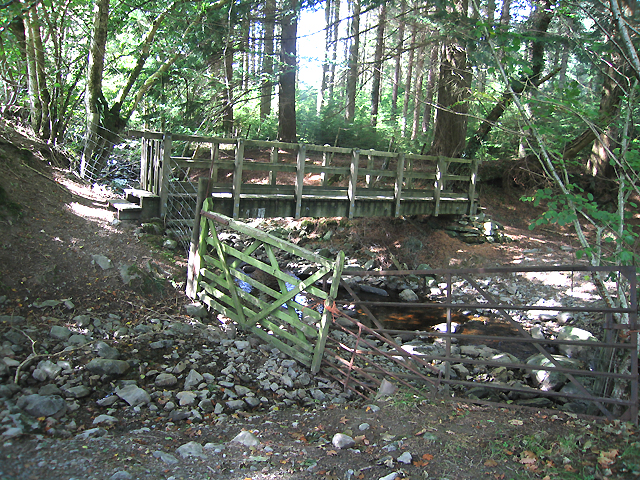 Footbridge in Dyfnant Forest This is on Glyndwr's Way, a few miles south of Lake Vyrnwy.